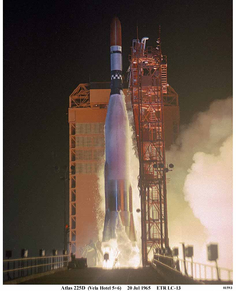 Launch of Atlas LV-3A Agena D rocket with Vela 3A (Vela 5), Vela 3B (Vela 6) and ERS-17 satellites, July 20 1965, Cape Canaveral Air Force Station.